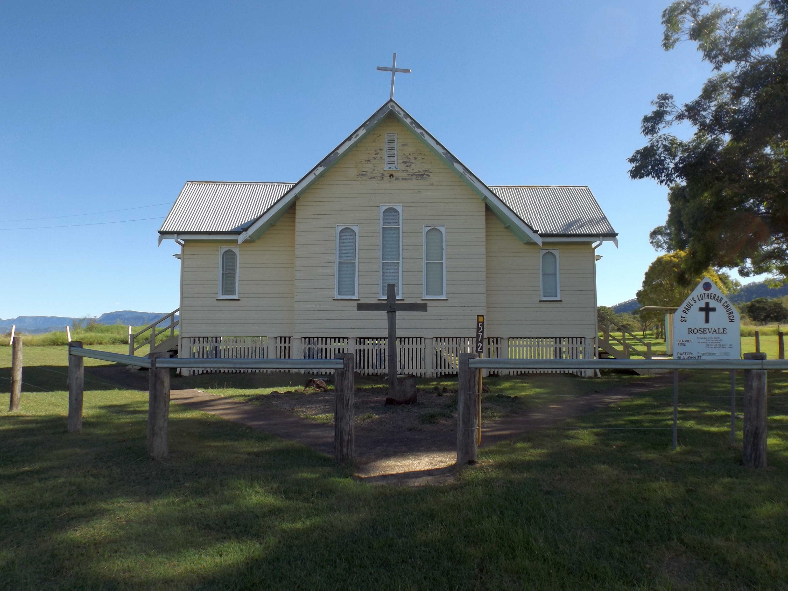 Photo of St Paul's Lutheran Church at Rosevale, Scenic Rim, Queensland, Australia.